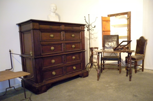 Torre del Greco; Villa delle Ginestre.